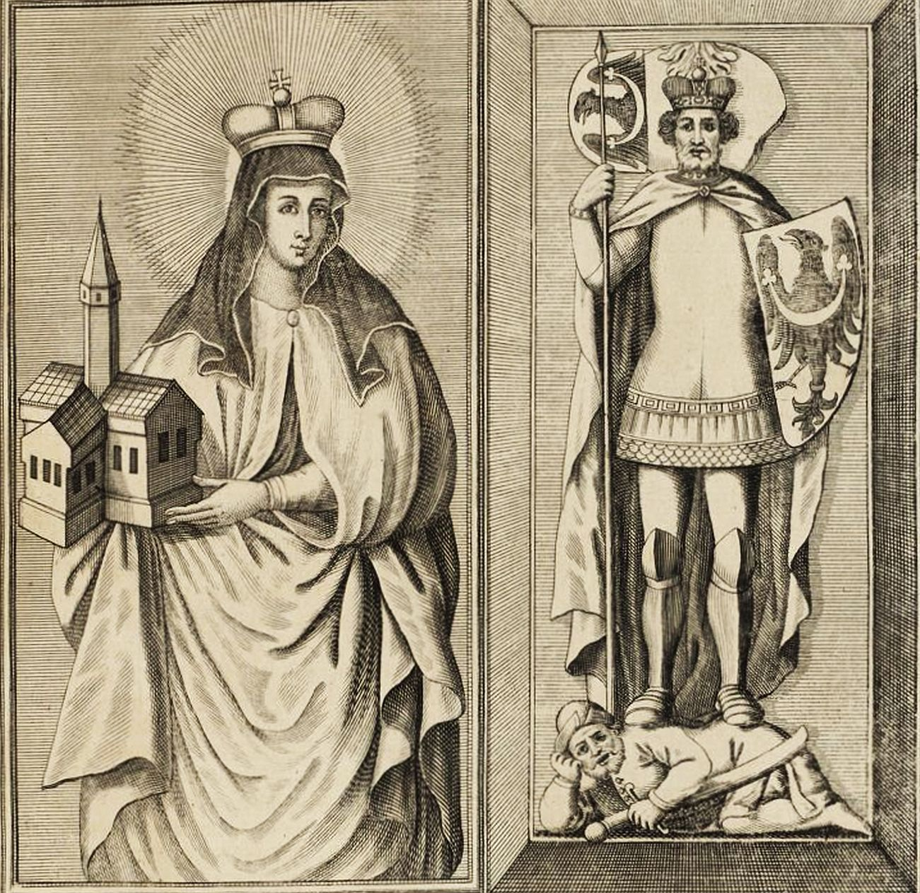 Henry II the Pious (1196/1207-1241), of the Silesian line of the Piast dynasty, Duke of Poland and Duke of Silesia. Anne of Bohemia (ca. 1201-1265), a member of the Přemyslid dynasty, Duchess of Silesia, wife of Henry II the Pious